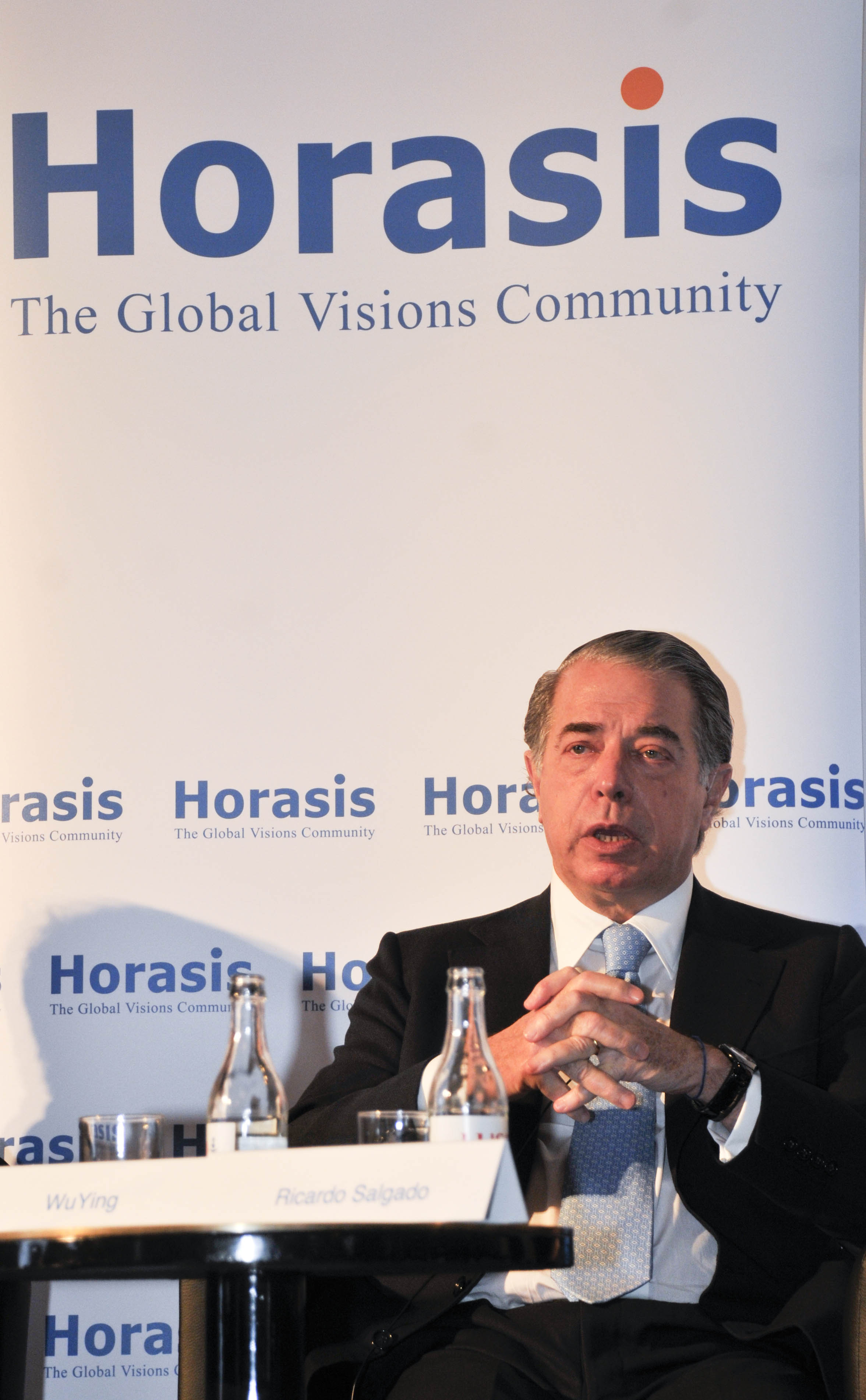 Horasis Global China Business Meeting 2009